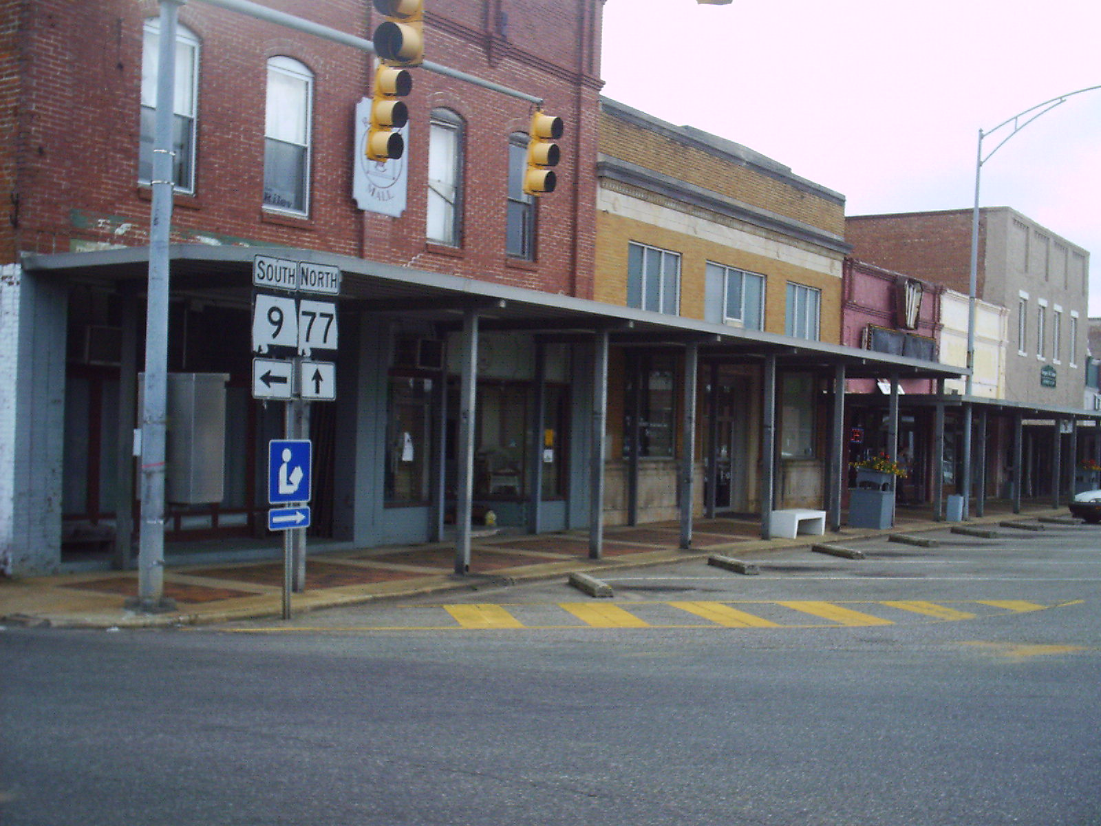 Ashland Alabama Town Square stores